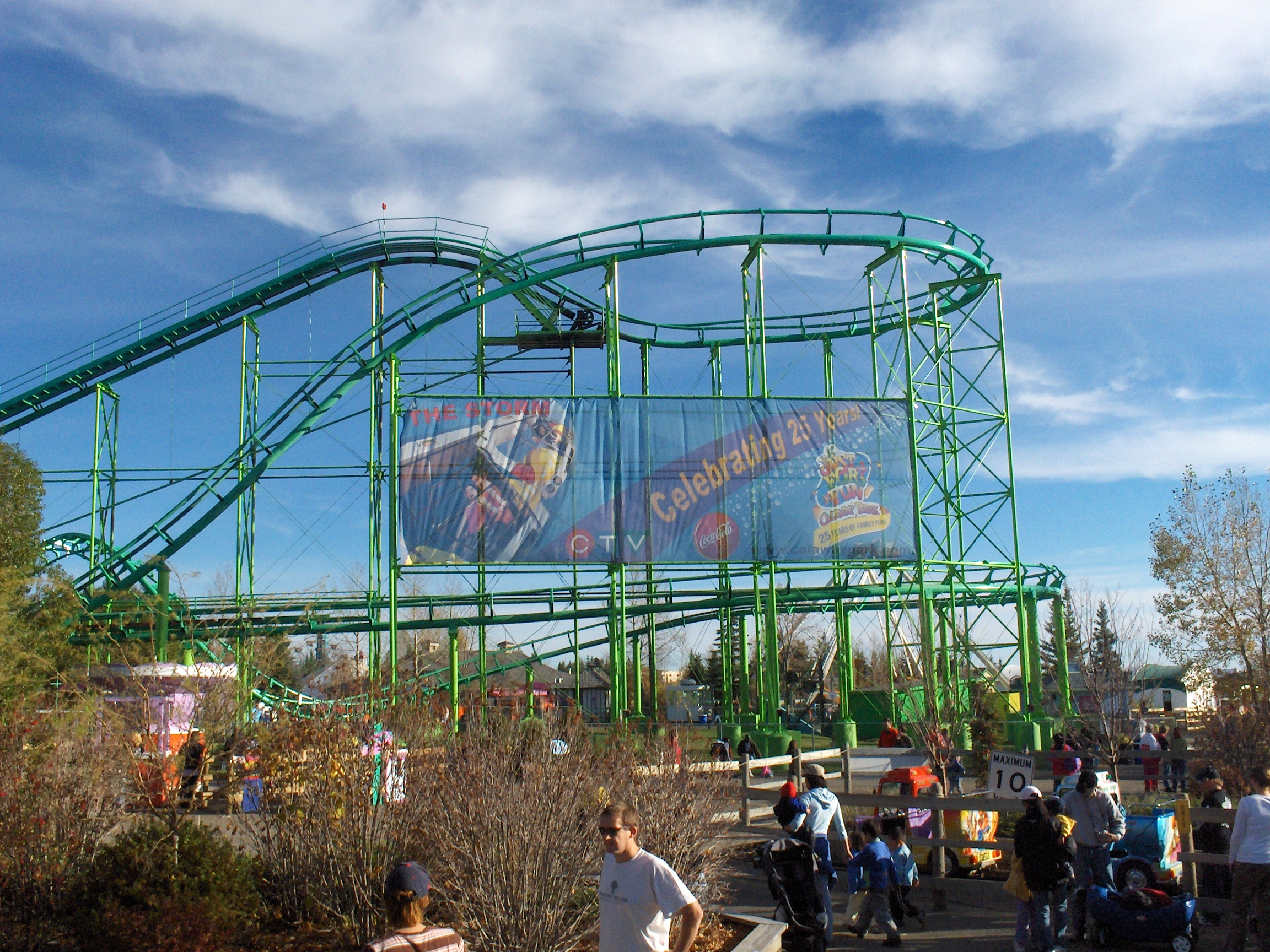 Calaway Park (Calgary, Canada) - A banner of Calaway celebrating it's 25th Anniversary with the new ride "Storm," posted on Vortex's (the roller coaster) side railings. Other rides are shown, including Swirly Twirl (left), Super Trucks (right) and Ocean Motion in the background. The Calaway Cafe is shown behind vortex (gray-roofed building), and the Guest Services booth to the right of it (smaller white building).